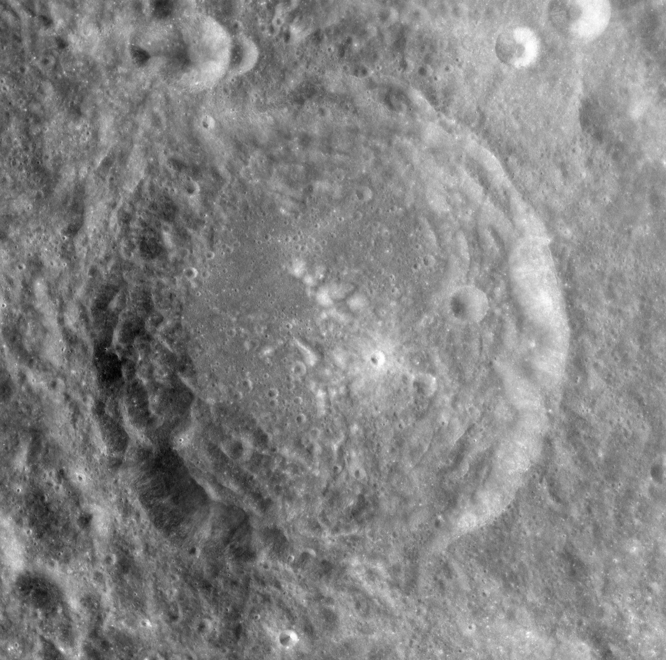 Marconi, in LQ23 quadrangle, on the far side of the moon.